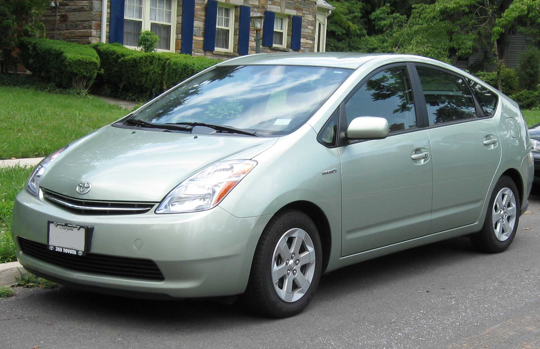 2004-2008 Toyota Prius photographed in Bethesda, Maryland, USA.